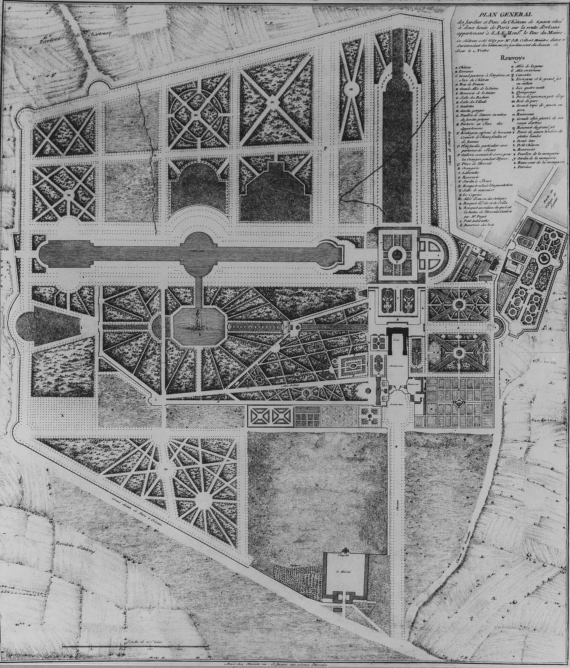 Plan of the domain of the Château de Sceaux